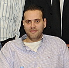 U.S. Ambassador Daniel Shapiro on his first official visit to Kiryat Gat, met with the mayor, Aviram Dahari, and the 17 council members, who presented him with the key to the city in a short ceremony. A 7-piece elementary school string band representing Kiryat Gat's diverse population played Hanukkah tunes at ceremony. The Ambassador was also introduced to Ethiopian elementary school students who attend Moadon Ivzan, a community center in Kiryat Gat run by Mr. Yaakov Uzan. This was followed by a visit to Fidel youth club (Fidel is Amharic for alphabet), accompanied by the mayor and deputy mayor, where he met with staff and students, and saw an exhibition of Ethiopian arts and crafts organized by the NGO Ehete (Amharic for "My Sisters").